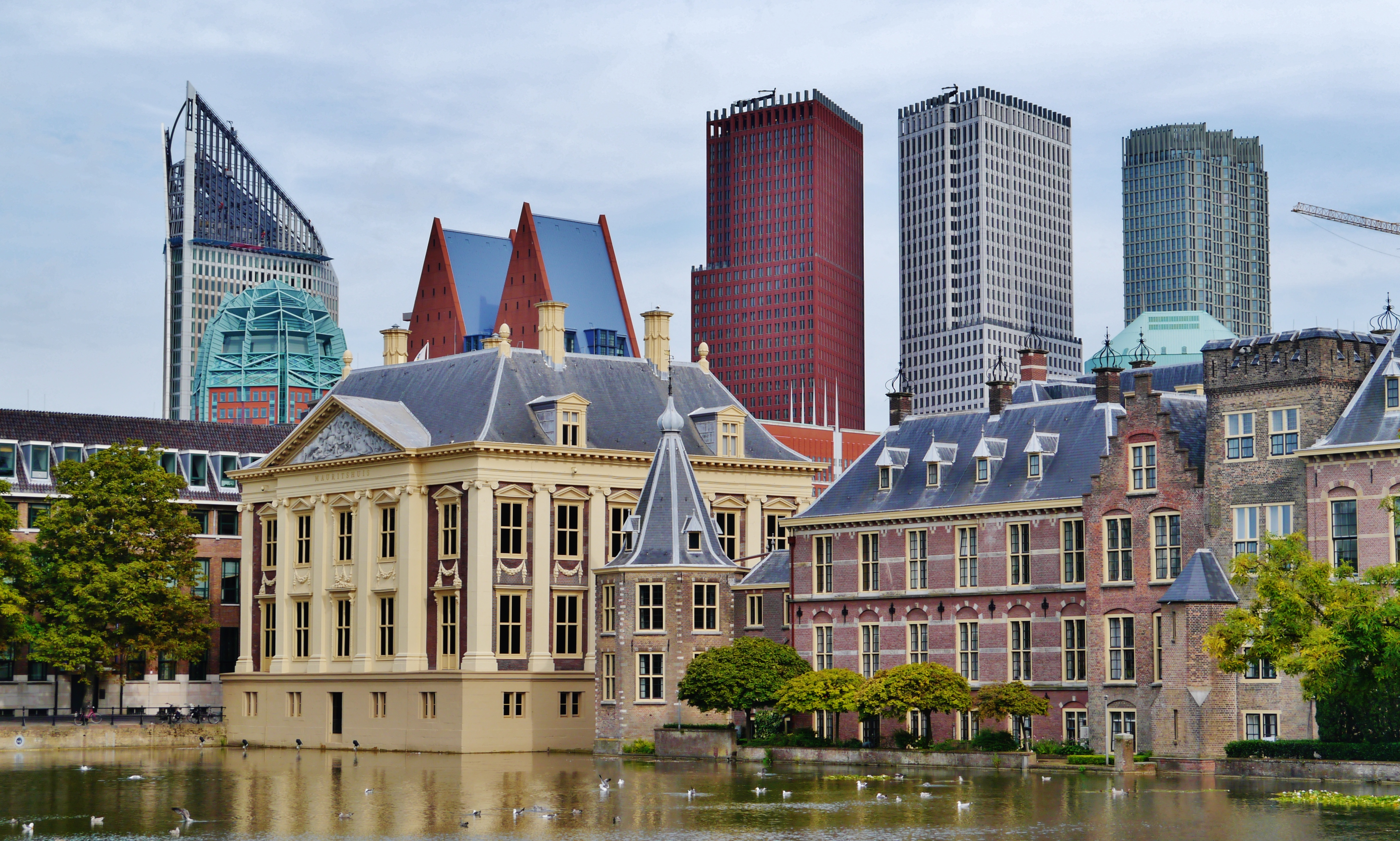 Maurits House and behind the Skyline of The Hague, Province of South Holland, Netherlands